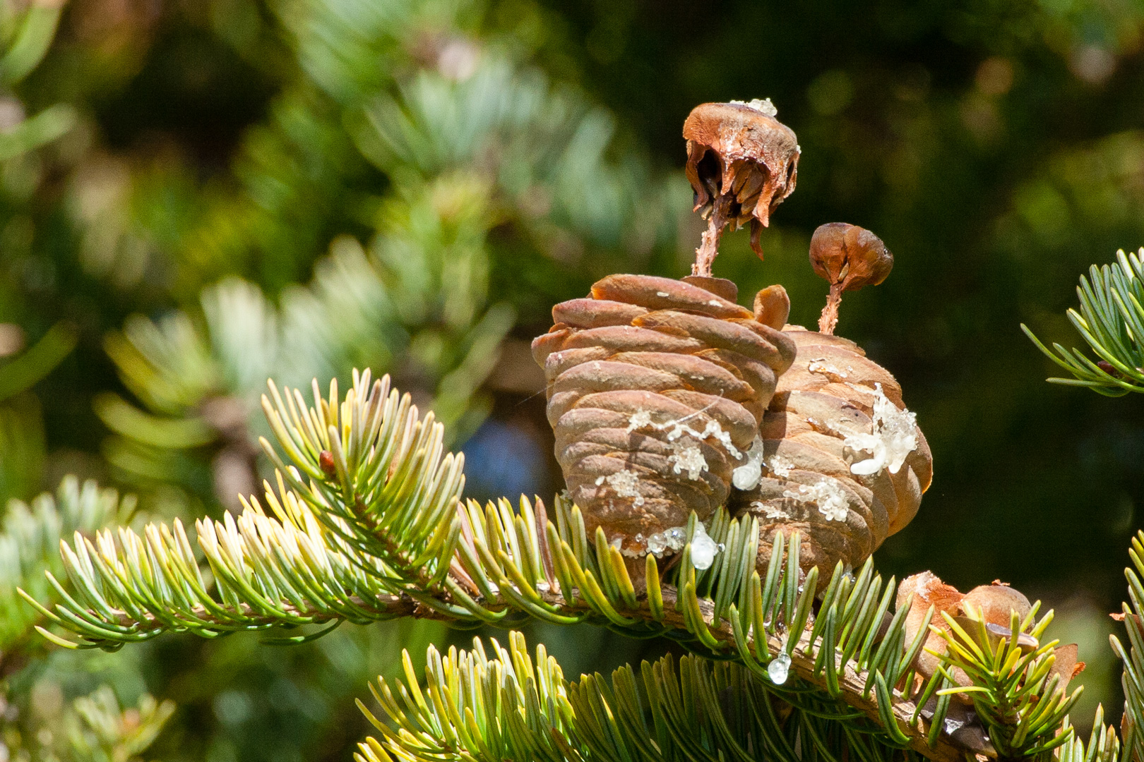 Manchurian Fir Abies holophylla disintegrating cones Botanical Garden CZRB PAN - Powsin, Warsaw 2013-10-14